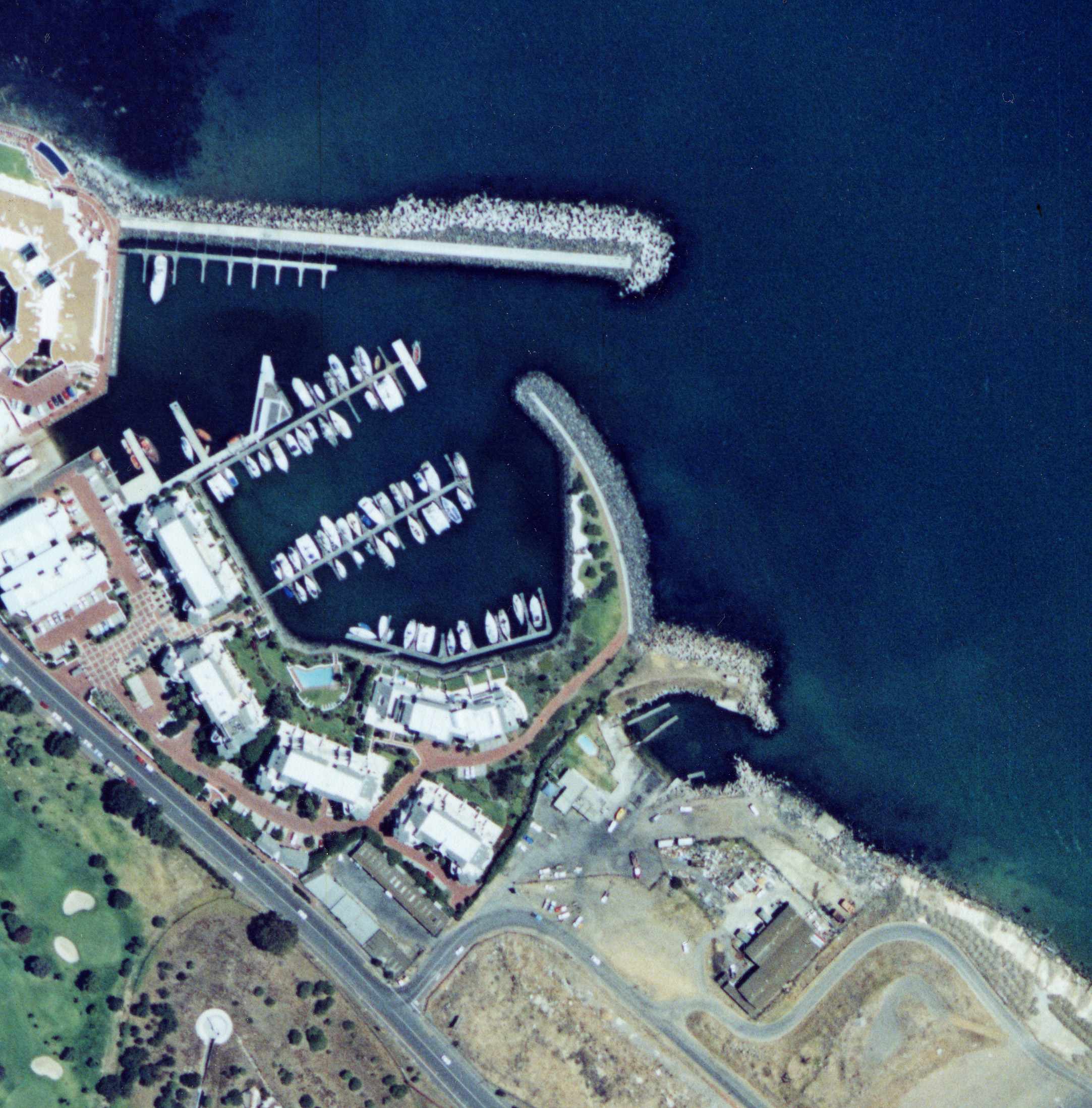 Aerial view of the Harbour at Granger Bay and the slipway at Oceana Power Boat Club, Granger Bay, Cape Town.